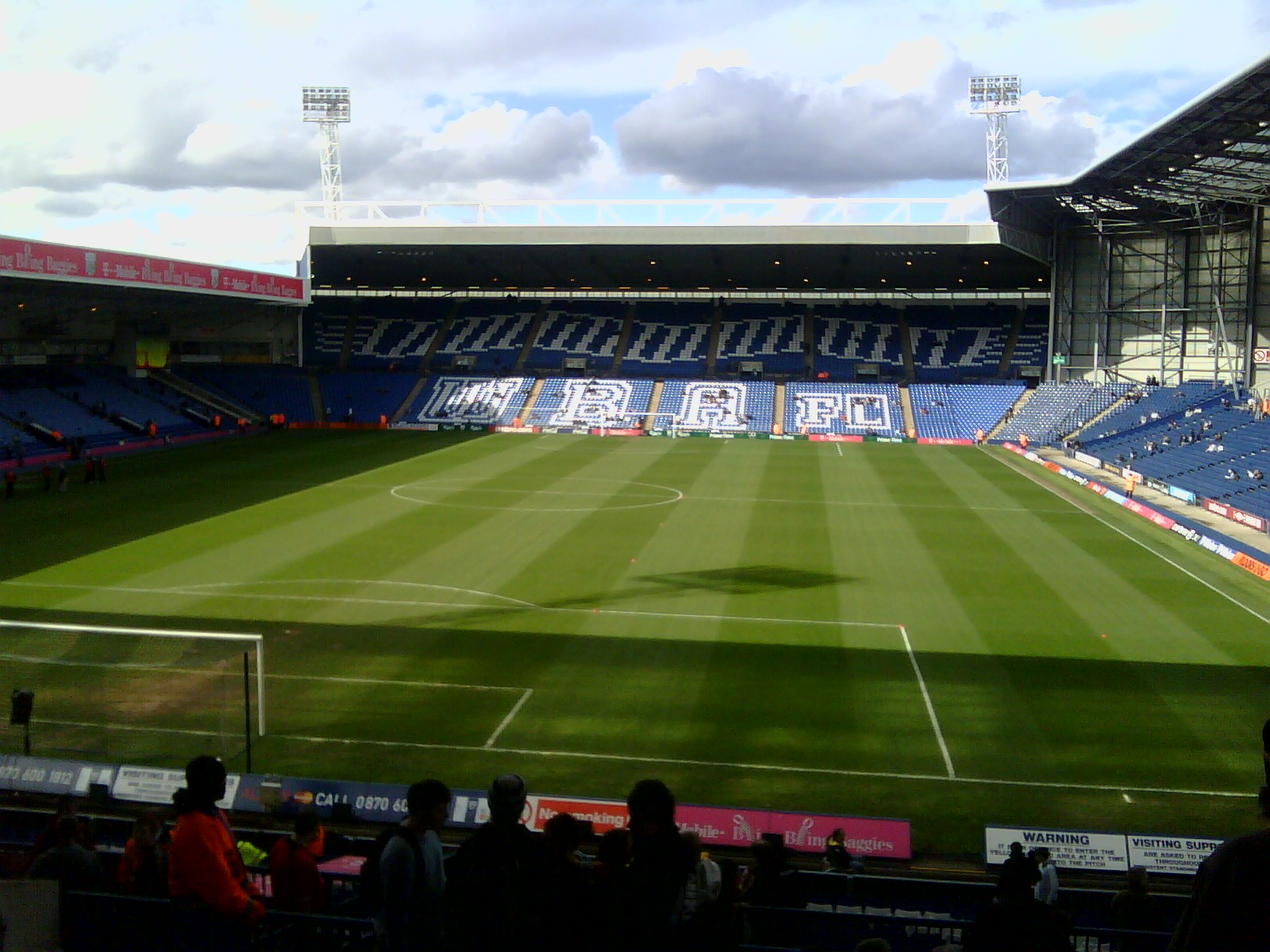 West Brom Stadium